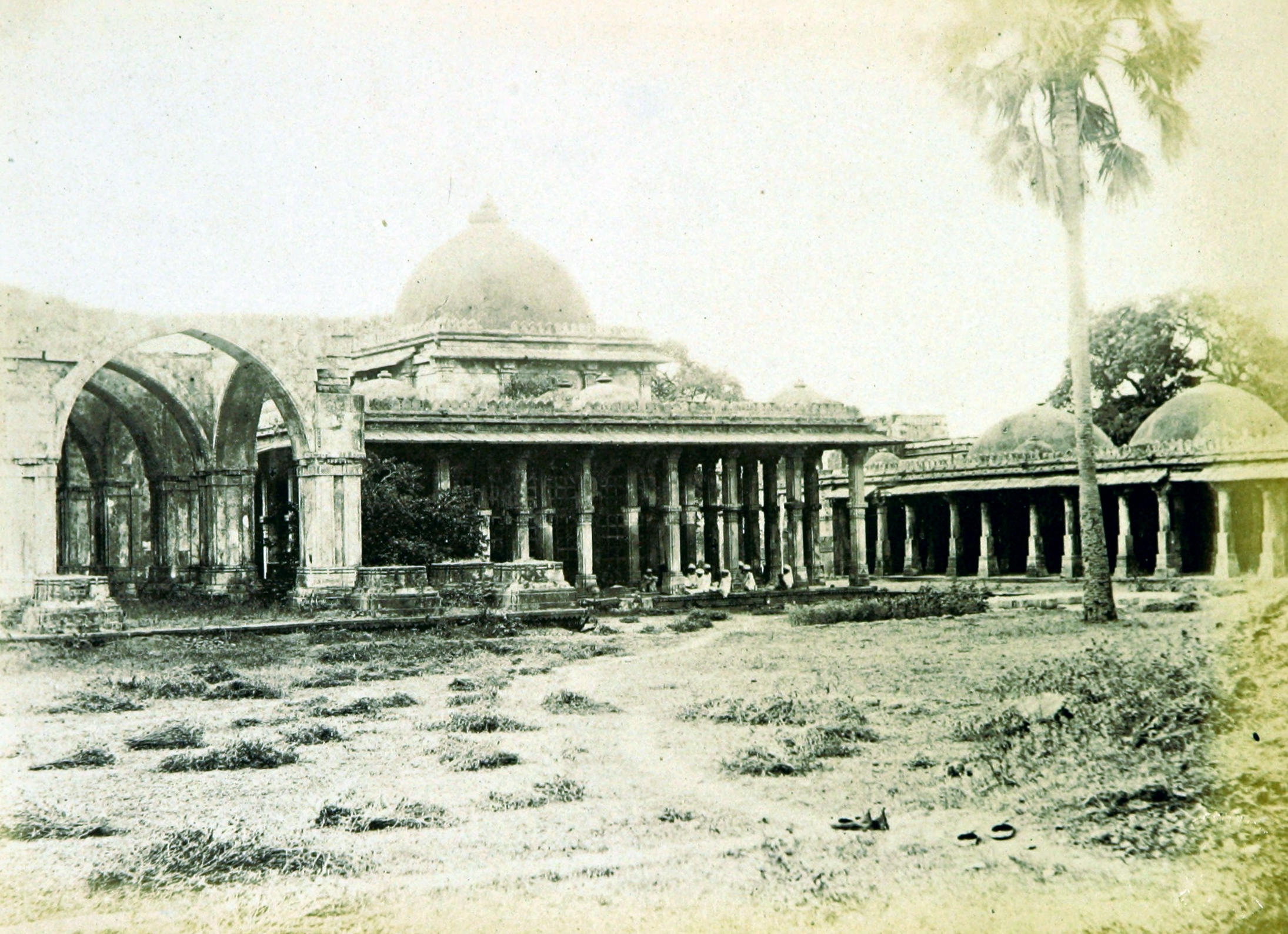 Image taken from: Title: "Architecture at Ahmedabad, the Capital of Goozerat, photographed by Colonel Biggs, ... With an historical and descriptive sketch, by T. C. H., ... and architectural notes by J. Fergusson, etc" Author: HOPE, Theodore Cracraft - Sir, K.C.S.I Contributor: BIGGS, Thomas. Contributor: FERGUSSON, James - Architect Shelfmark: "British Library HMNTS 10057.f.17.", "British Library OC V 6665" Page: 249 Place of Publishing: London Date of Publishing: 1866 Issuance: monographic Identifier: 001730119 Note: The colours, contrast and appearance of these illustrations are unlikely to be true to life. They are derived from scanned images that have been enhanced for machine interpretation and have been altered from their originals. If you wish to purchase a high quality copy of the page that this image is drawn from, please order it here. Please note that you will need to enter details from the above list - such as the shelfmark, the page, the book's volume and so on - when filling out your order. Following this or the link above will take you to the British Library's integrated catalogue. You will be able to download a PDF of the book this image is taken from, as well as view the pages up close with the 'itemViewer'. Click on the 'related items' to search for the electronic version of this work. Click here to see all the illustrations in this book and click here to browse other illustrations published in books in the same year. Please click on the tags shown on the right-hand side for other ways to browse the illustrations.